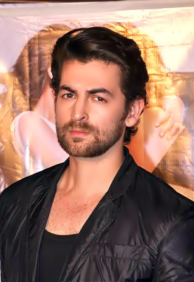 Neil Nitin Mukesh at a promotional event for 3G, February 2013